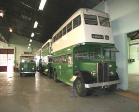 Núcleo 2